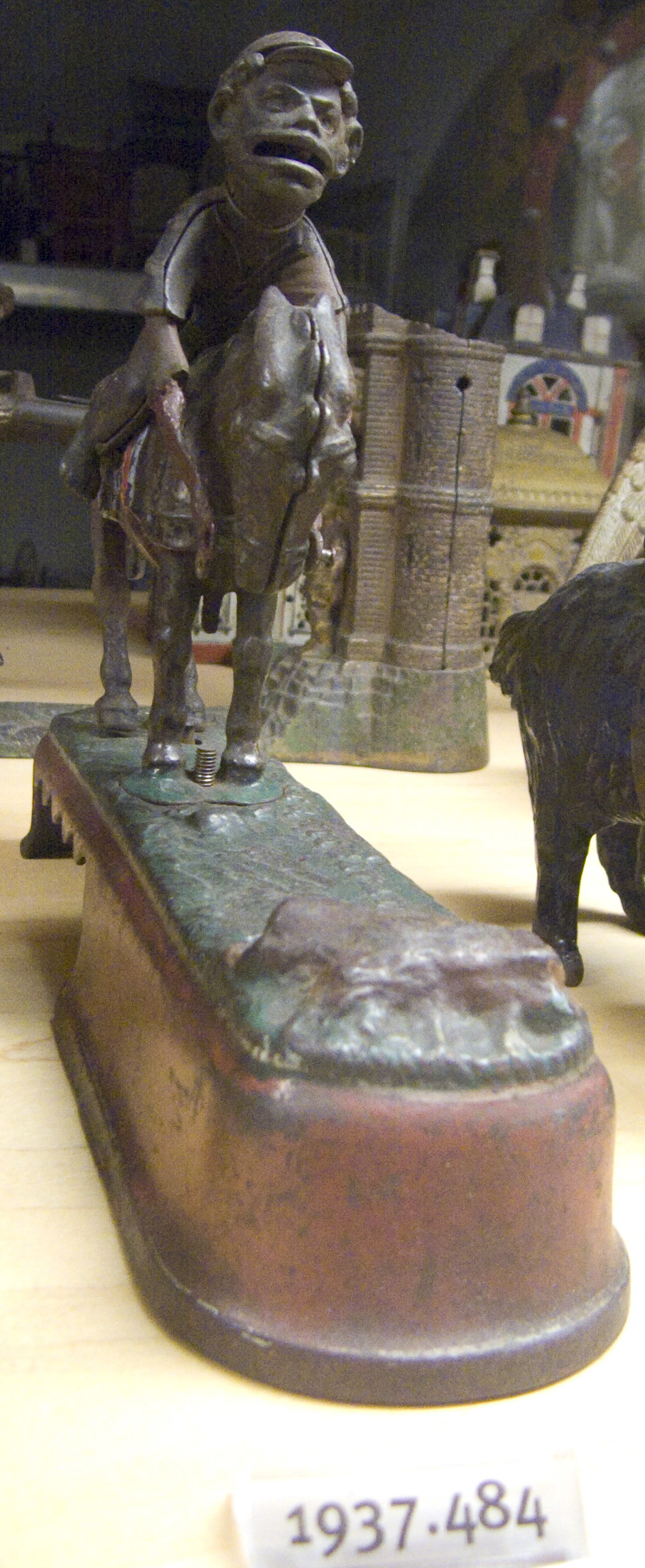 James H. Bowen, inventor; J. & E. Stevens Co., manufacturer. Mechanical bank: I Always Did 'Spise A Mule, ca. 1879. Iron, paint: 8 x 10 x 2 7/8 in. ( 20.3 x 25.4 x 7.3 cm ). New-York Historical Society, 1937.484. Wikipedia Loves Art at the New-York Historical Society This photo of item # [1] at the New-York Historical Society was contributed under the team name "The_Grotto" as part of the Wikipedia Loves Art project in February 2009. New-York Historical Society The original photograph on Flickr was taken by cjn212—please add a comment to the original Flickr page whenever a use has been made on Wikipedia or another project. Project galleries on Flickr: this institution, this team